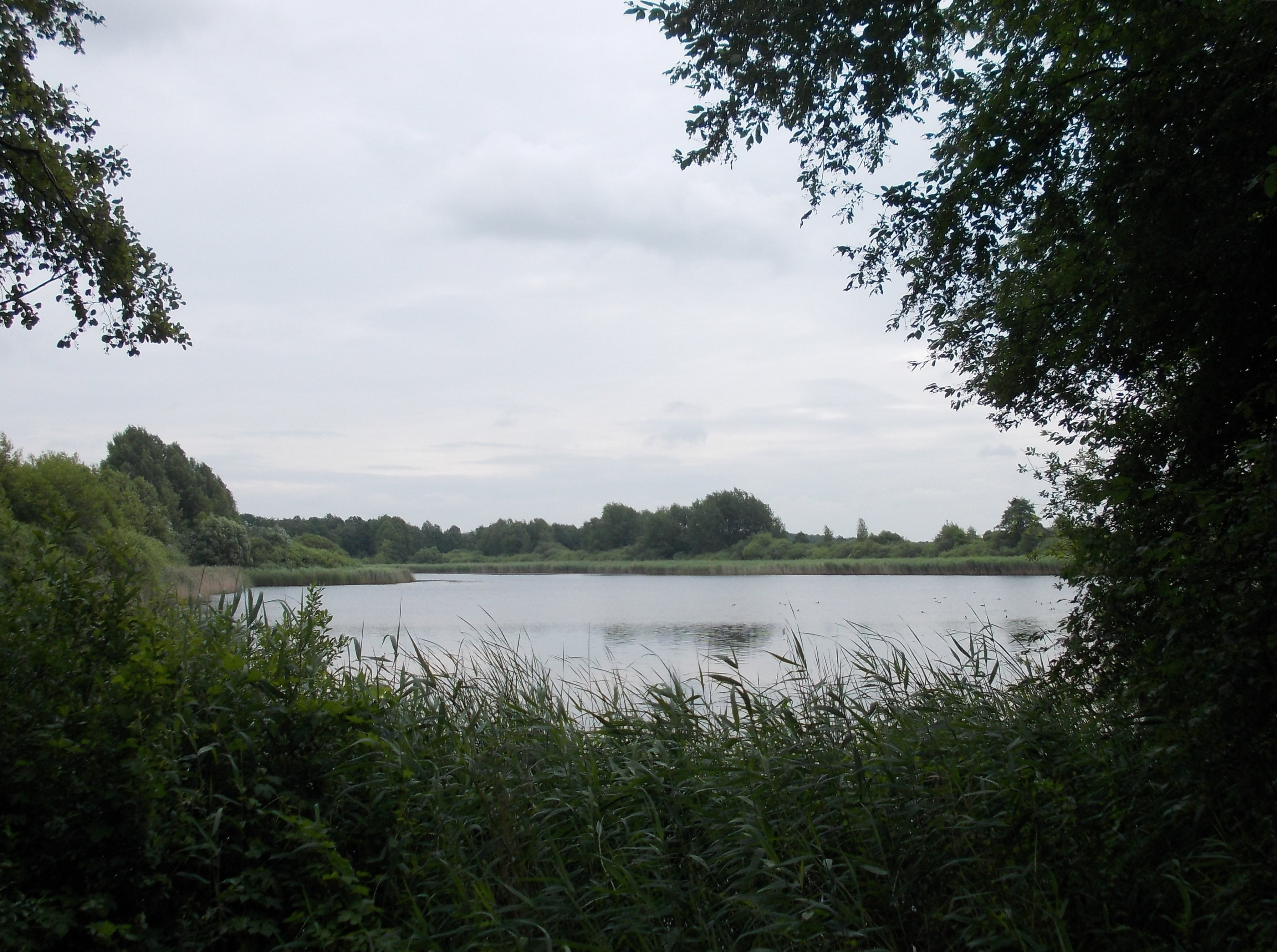 Mittelteich pond in Rohrbach (Belgershais, Leipzig district, Saxony)